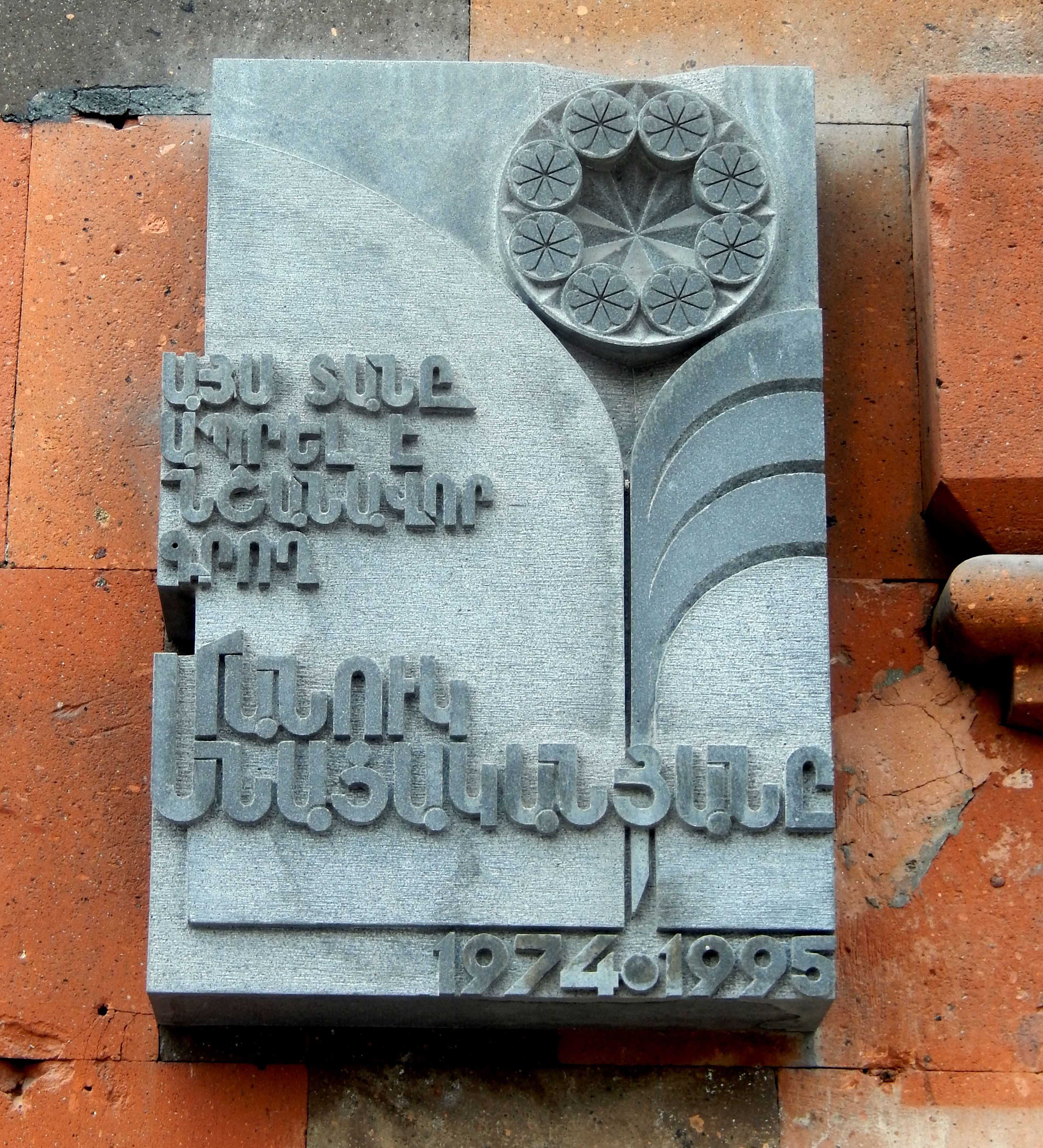 Manuk Mnatsakanyan's plaque in Yerevan